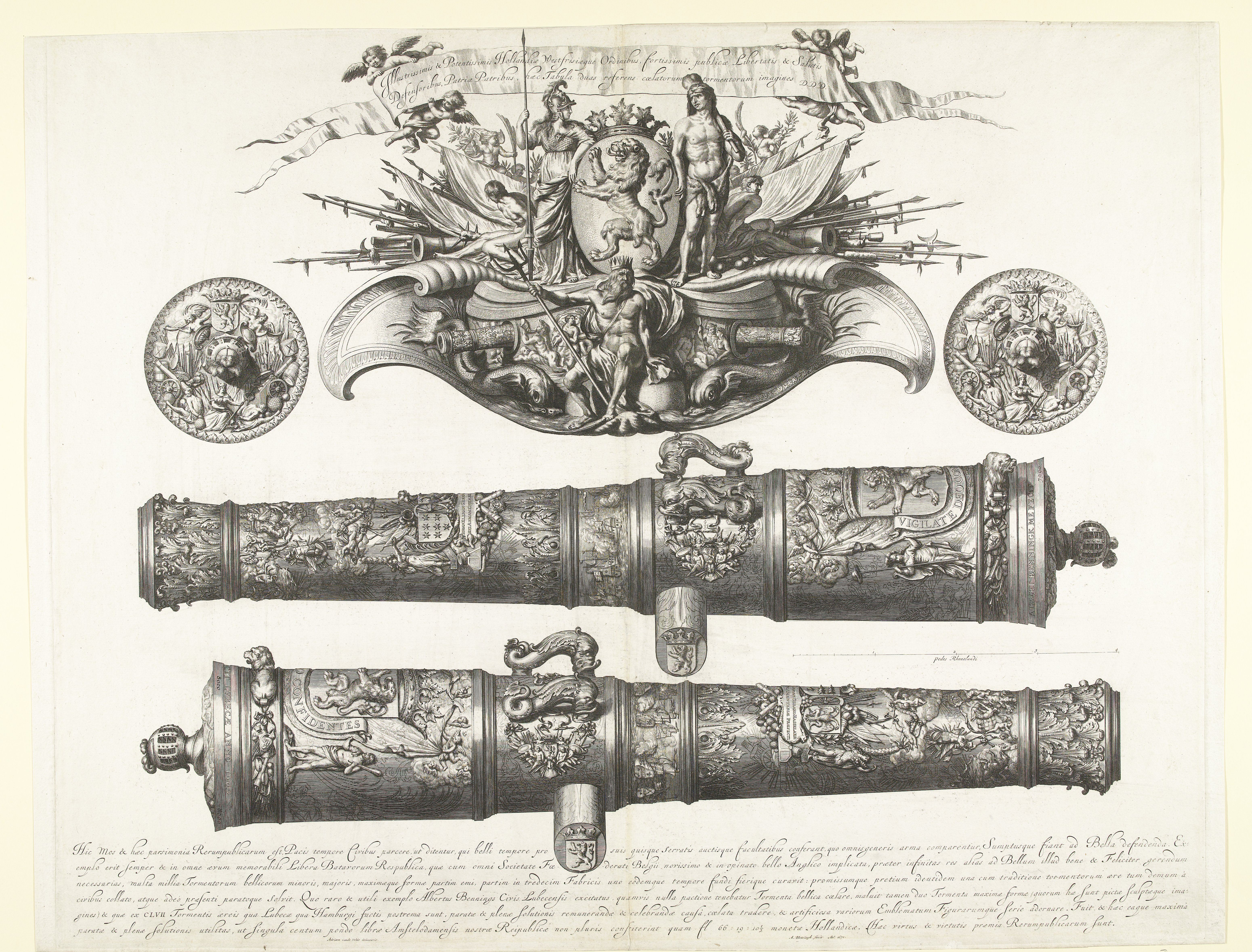 Design of two extraordinary 48-pounders cast at Lübeck by Albert Benningck for Dutch States General in 1669